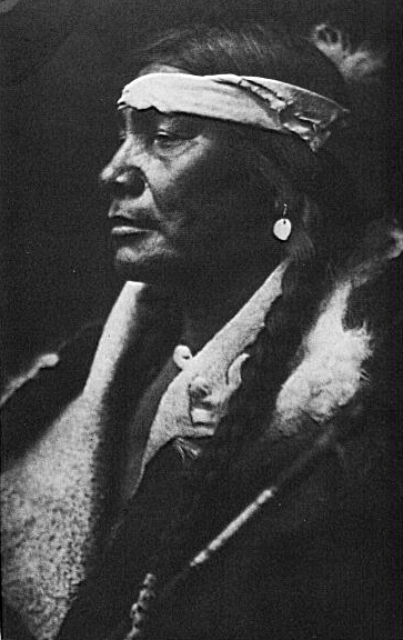 North Amerindian.